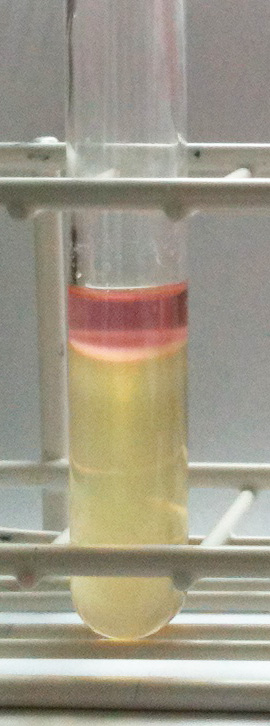 Serratia odorifera in SIM agar, showing a negative result for H2S production, a weakly positive result for the indole test (after Kovac's reagent has been added), and a positive result for motility.